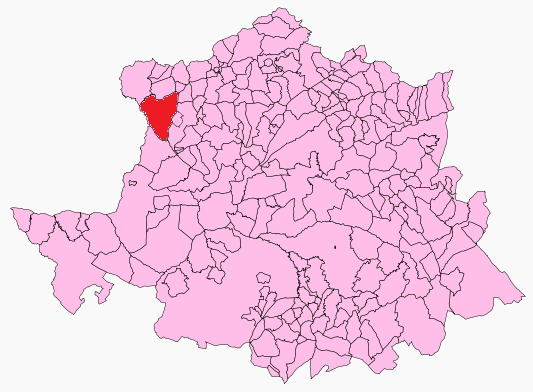 Cilleros